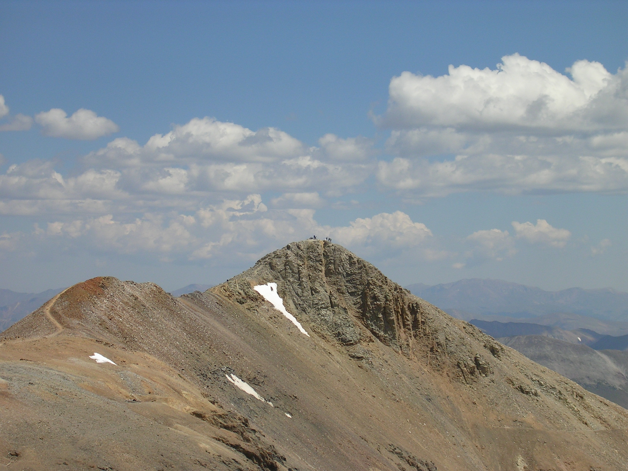 Mt. Lincoln from the summit of Mt. Cameron, August 15th 2004.